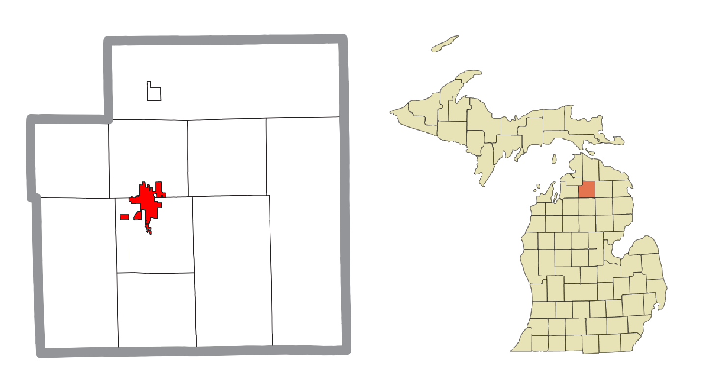 Gaylord, MI